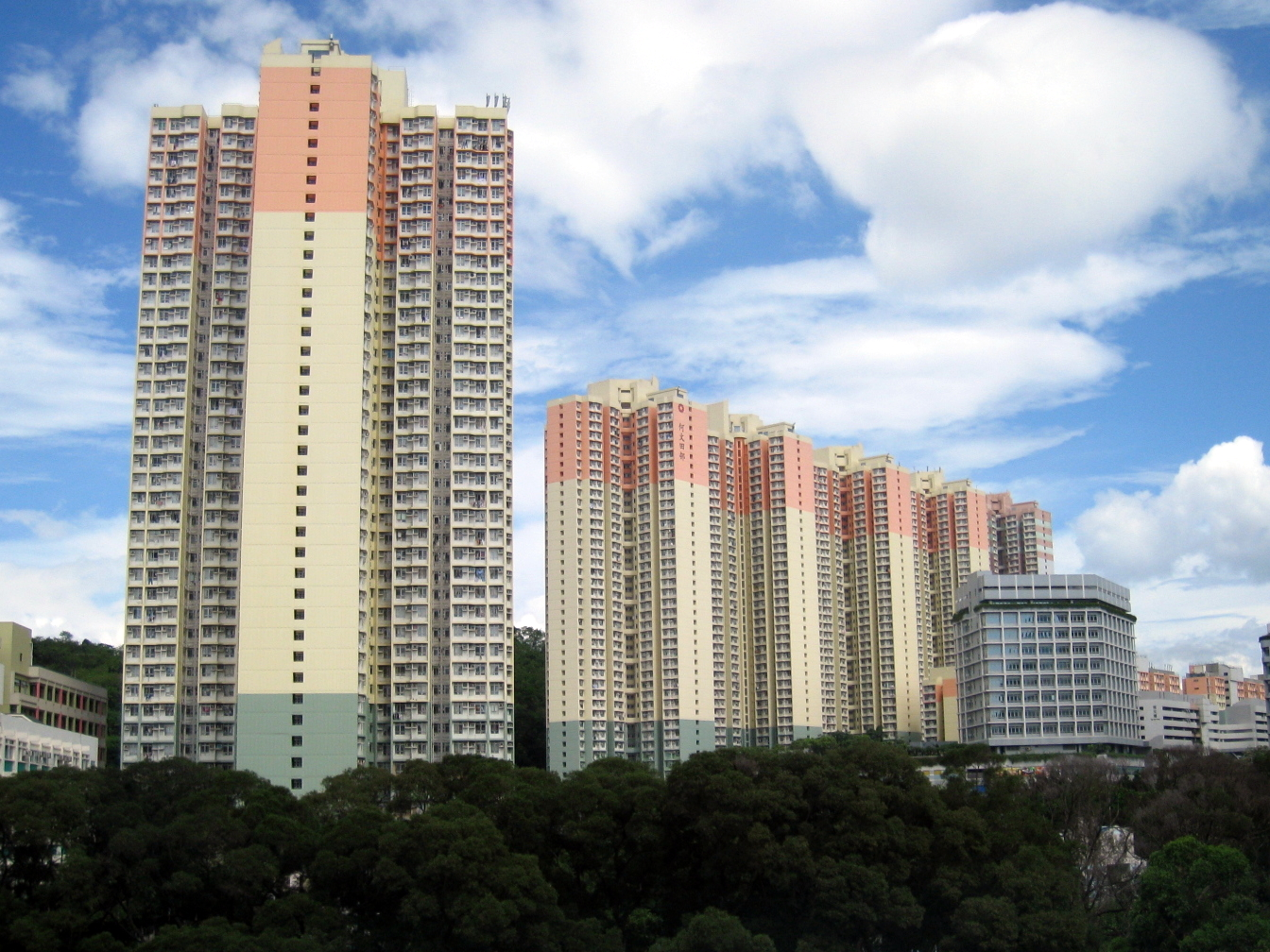 HK Ho Man Tin Estate 香港 何文田邨